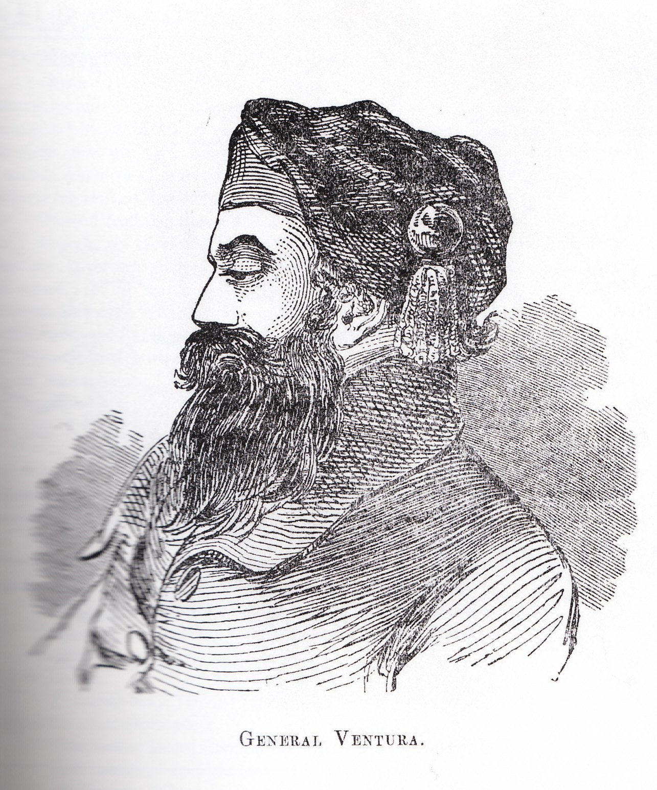 General Ventura (Finale 1794-Toulouse 1858)